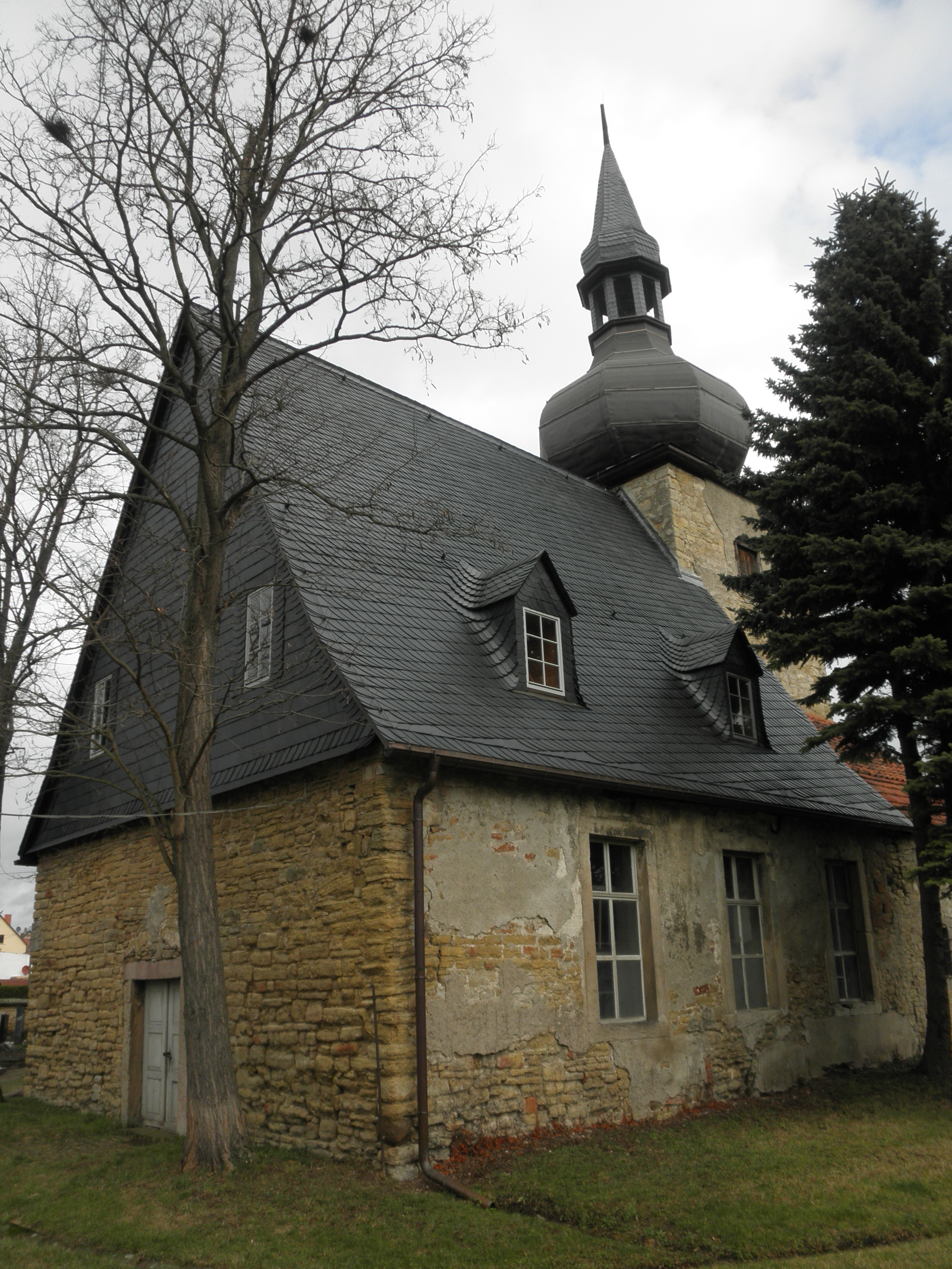 Church in Dermsdorf (Kölleda) in Thuringia